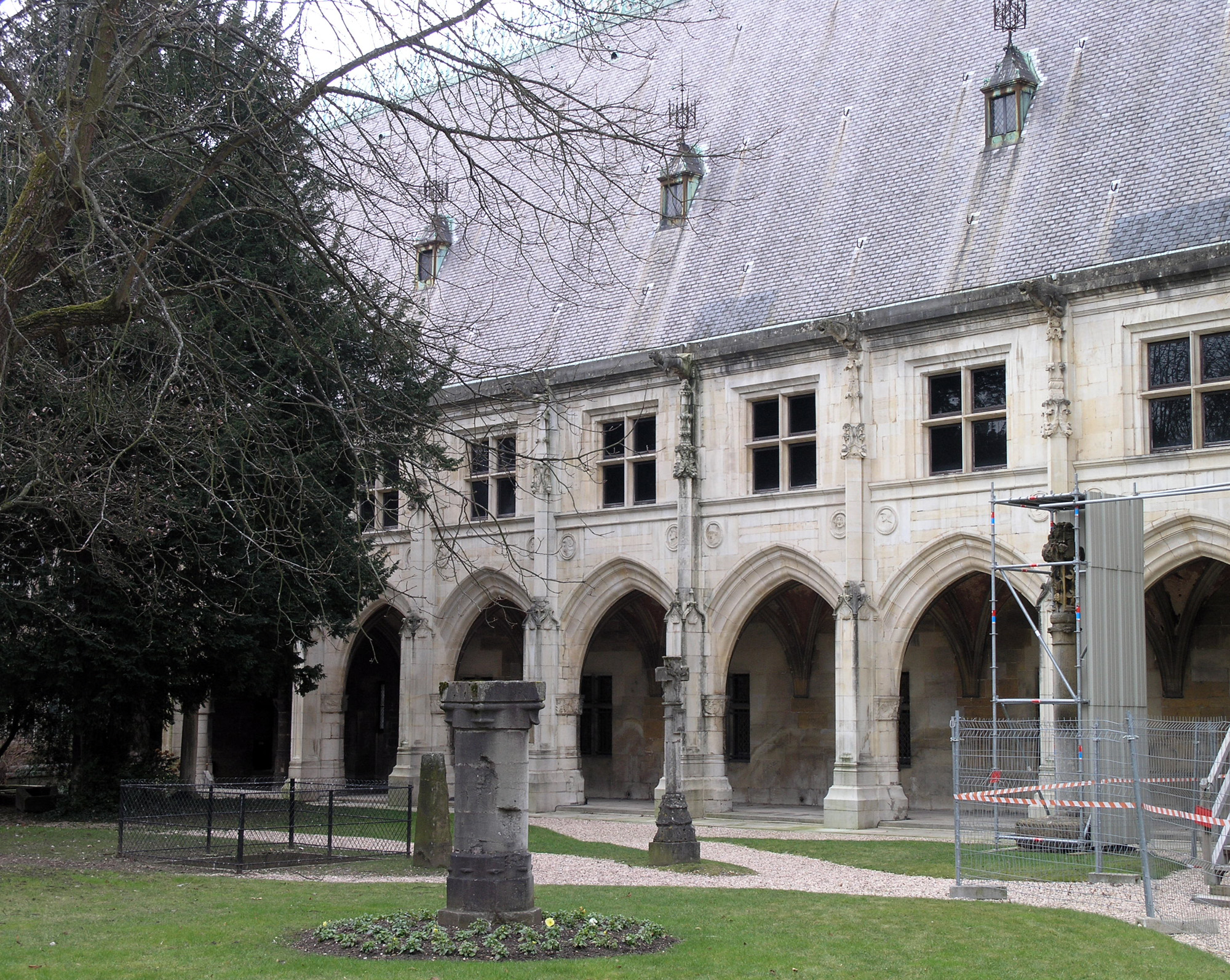 Inside gallery of the Palais ducal (Musée lorrain) in Nancy, France.